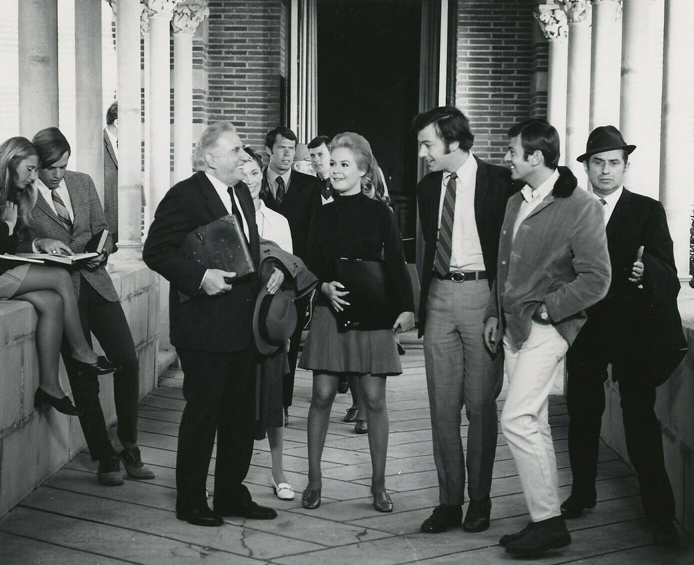 Sandra Dee in a still from The Dunwich Horror